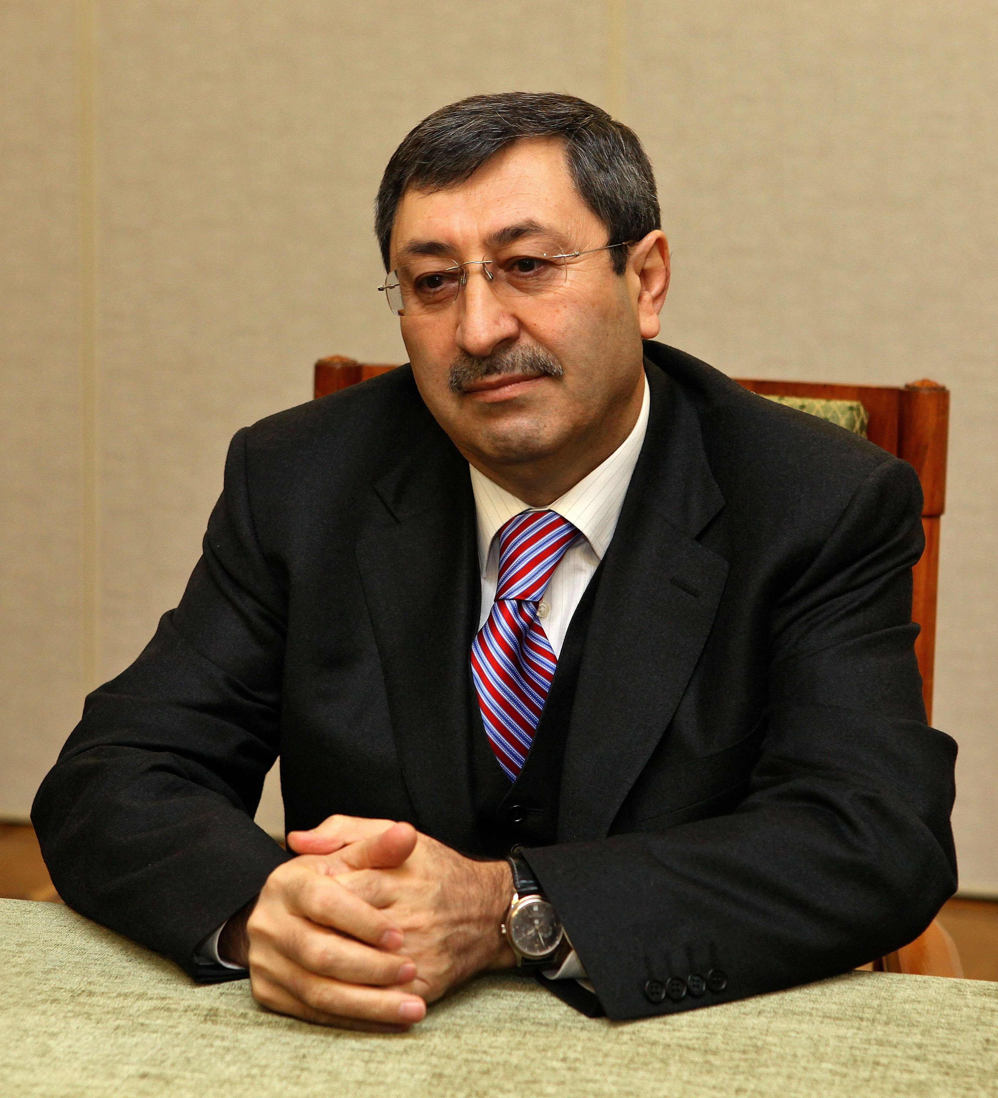 Deputy Minister of Foreign Affairs of Azerbaijan Khalaf Khalafov in the Polish Senate